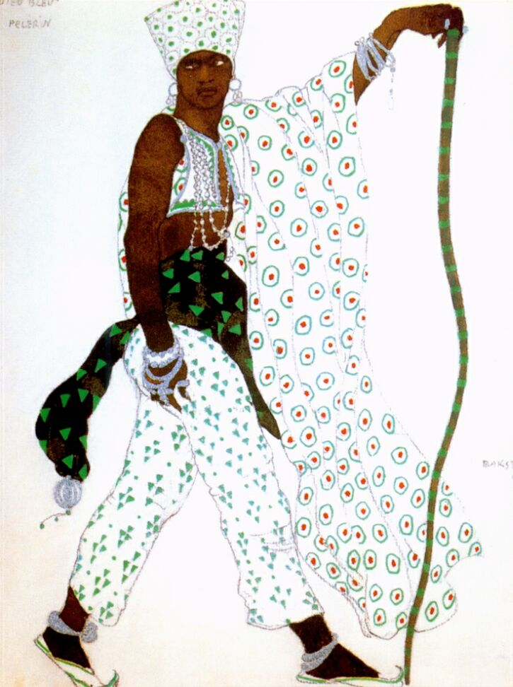 Léon Bakst (1867-1927), Sketch for the costume of the pilgrim for the ballet: Le dieu bleu, (1912). 1911. Pencil, watercolor, gouache and silver paint (laid down). 28,2 x 22,8 cm. Thyssen-Bornemisza Collection. Lugano.